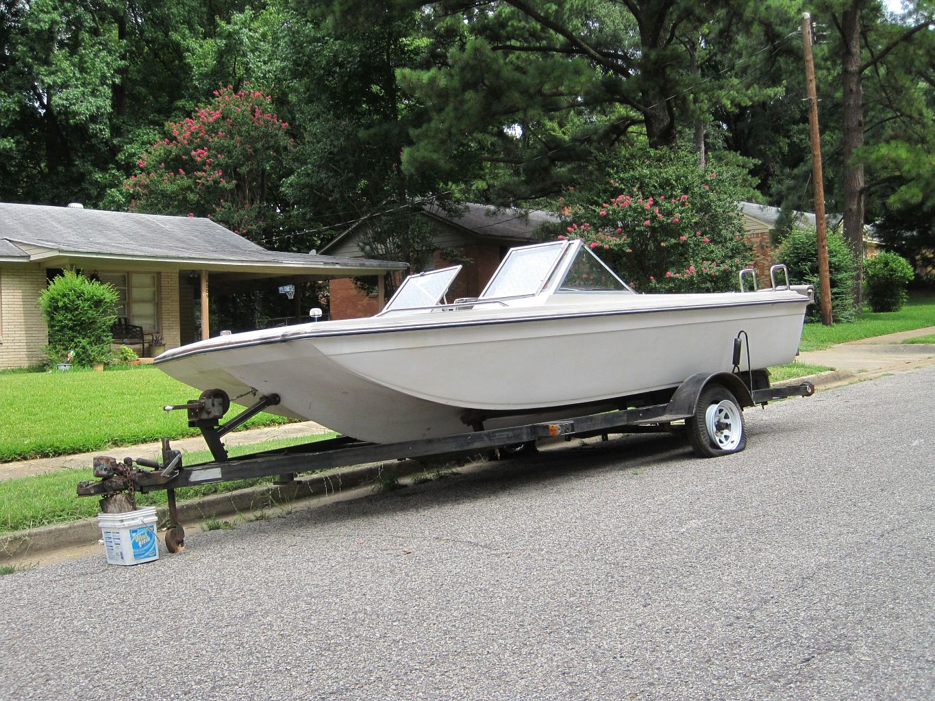 Memphis, Tennessee Boat on trailer